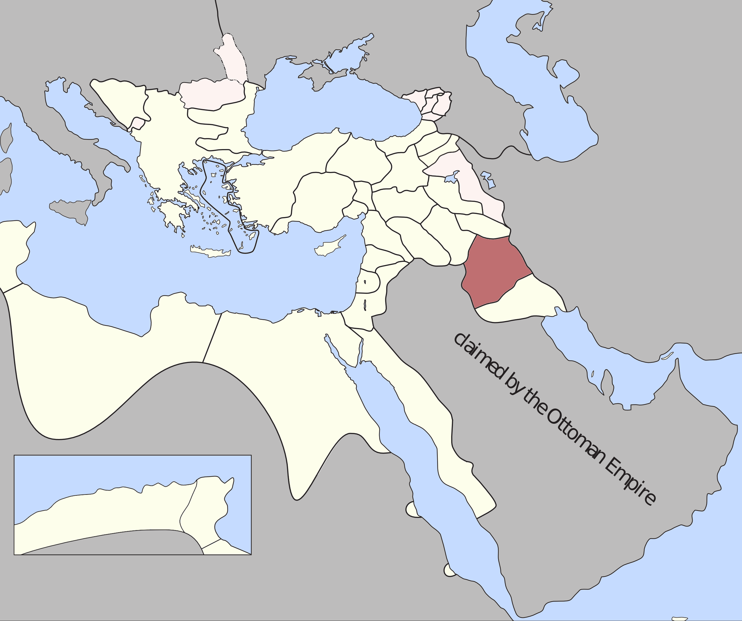 XY Eyalet, Ottoman Empire (1795). Source: A Brief History of the Late Ottoman Empire at Google Books By M. Sukru Hanioglu, Figure 1